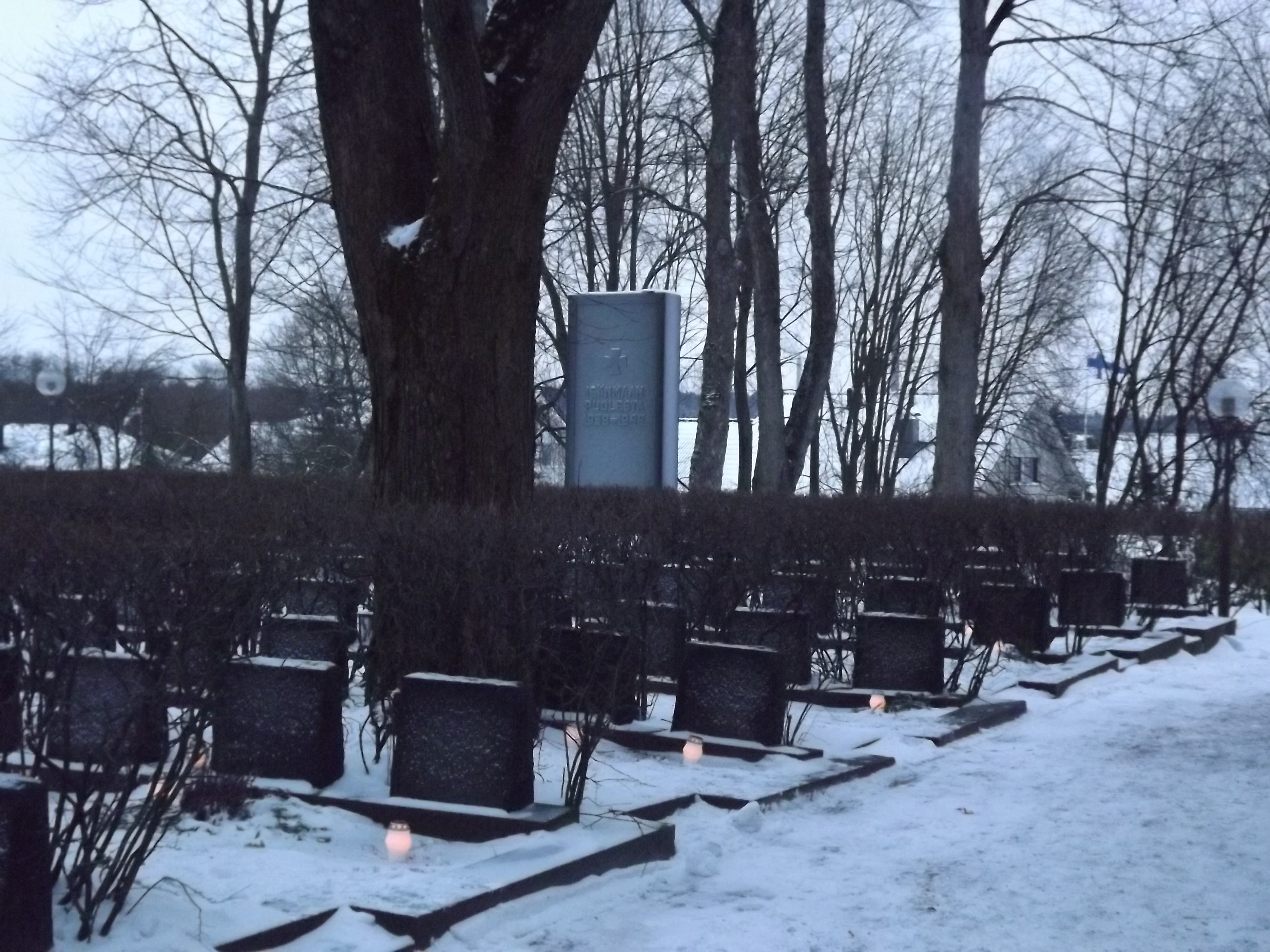 Graves of war by St Mary's Church in Turku. The monument has the text Isänmaan puolesta 1939–1944 (pro patria 1939–1944). Photo taken in the morning of the Independence Day.